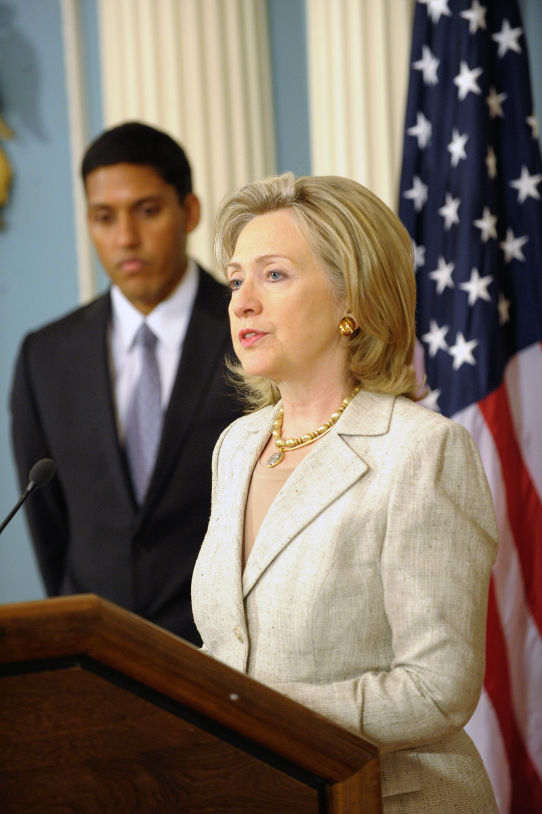 U.S. Secretary of State Hillary Rodham Clinton delivers a statement and USAID Administrator Rajiv Shah responds to questions on the flooding in Pakistan at the U.S. Department of State in Washington, D.C., on August 4, 2010. [State Department photo/ Public Domain]